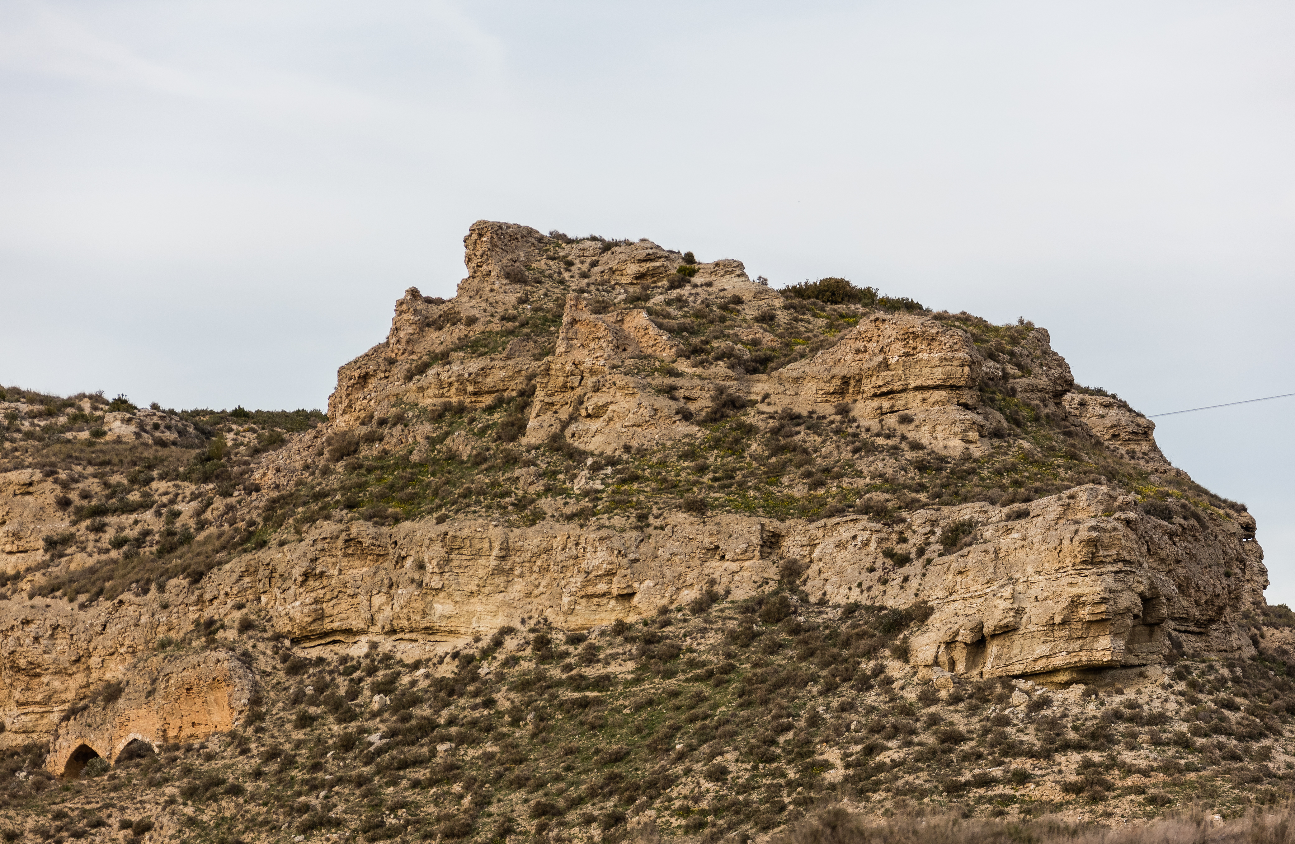 Castle of Pola, Remolinos, Zaragoza, Spain